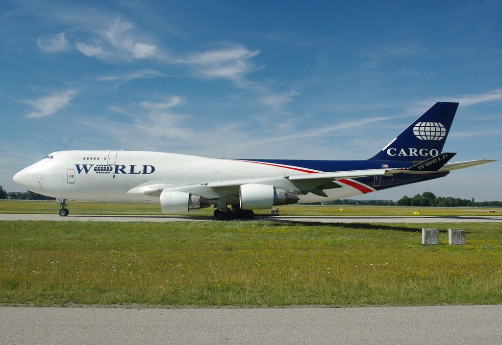 opf LH-Cargo